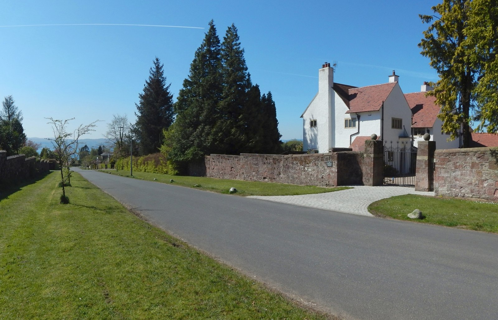 Upper Colquhoun Street, Helensburgh